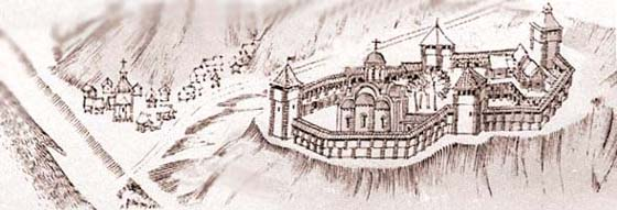 a schematic drawing of the annalistic Ugorska grove with a palace in ancient Kyiv